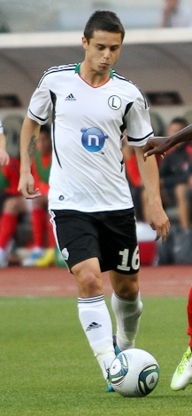 Association football player Ariel Borysiuk from Poland during UEFA Europa League qualification match between Legia Warszawa and Spartak Moscow at Luzhniki Stadium.